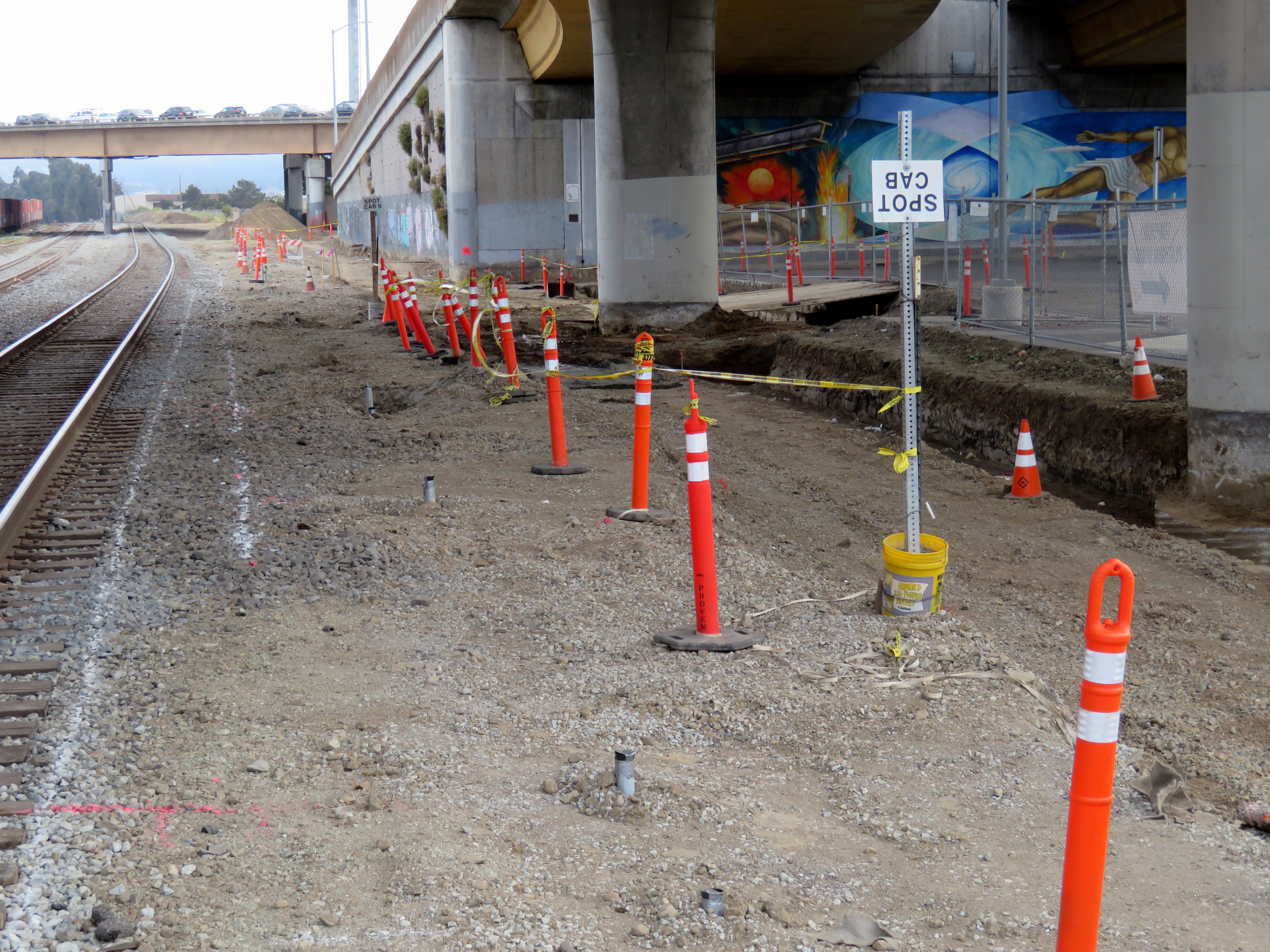 New platform under construction at South San Francisco station in July 2018